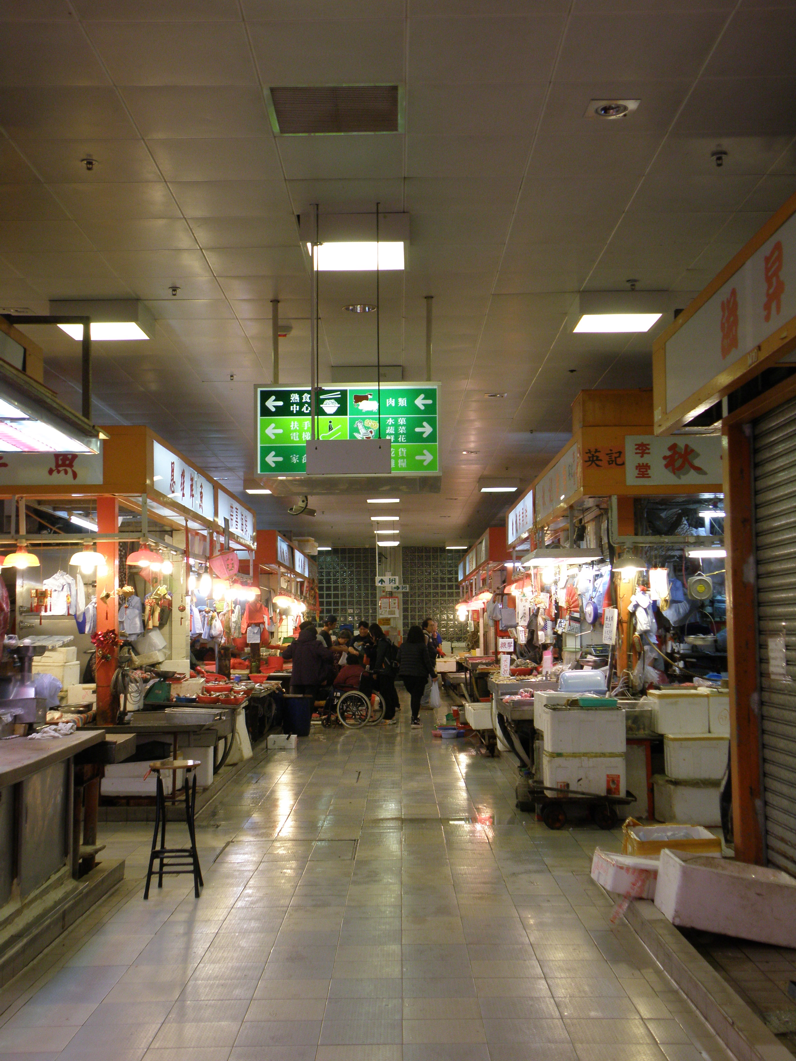 Ap Lei Chau Market in Ap Lei Chau, Hong Kong.